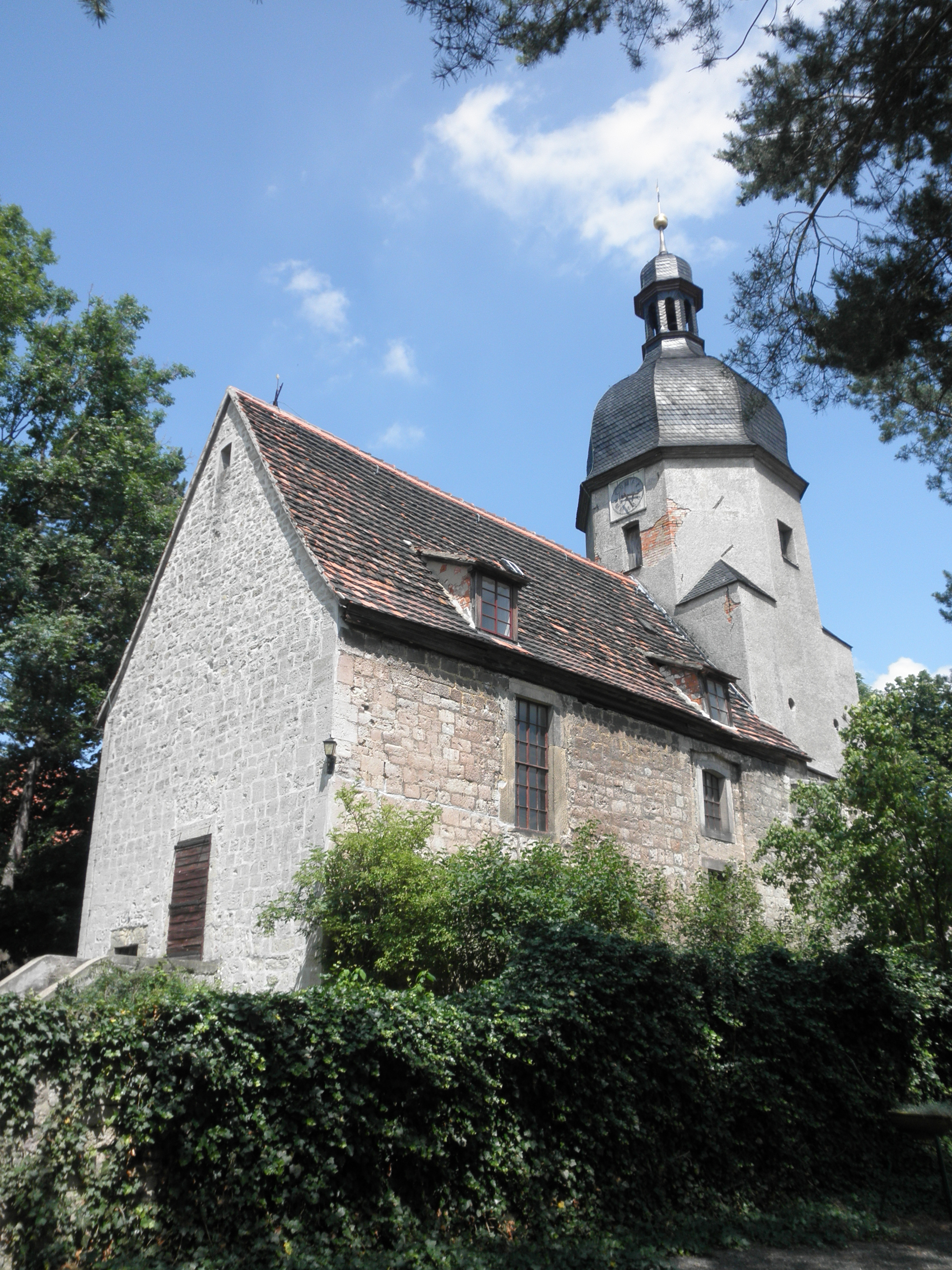 Church in Münchengosserstädt (Saaleplatte) in Thuringia